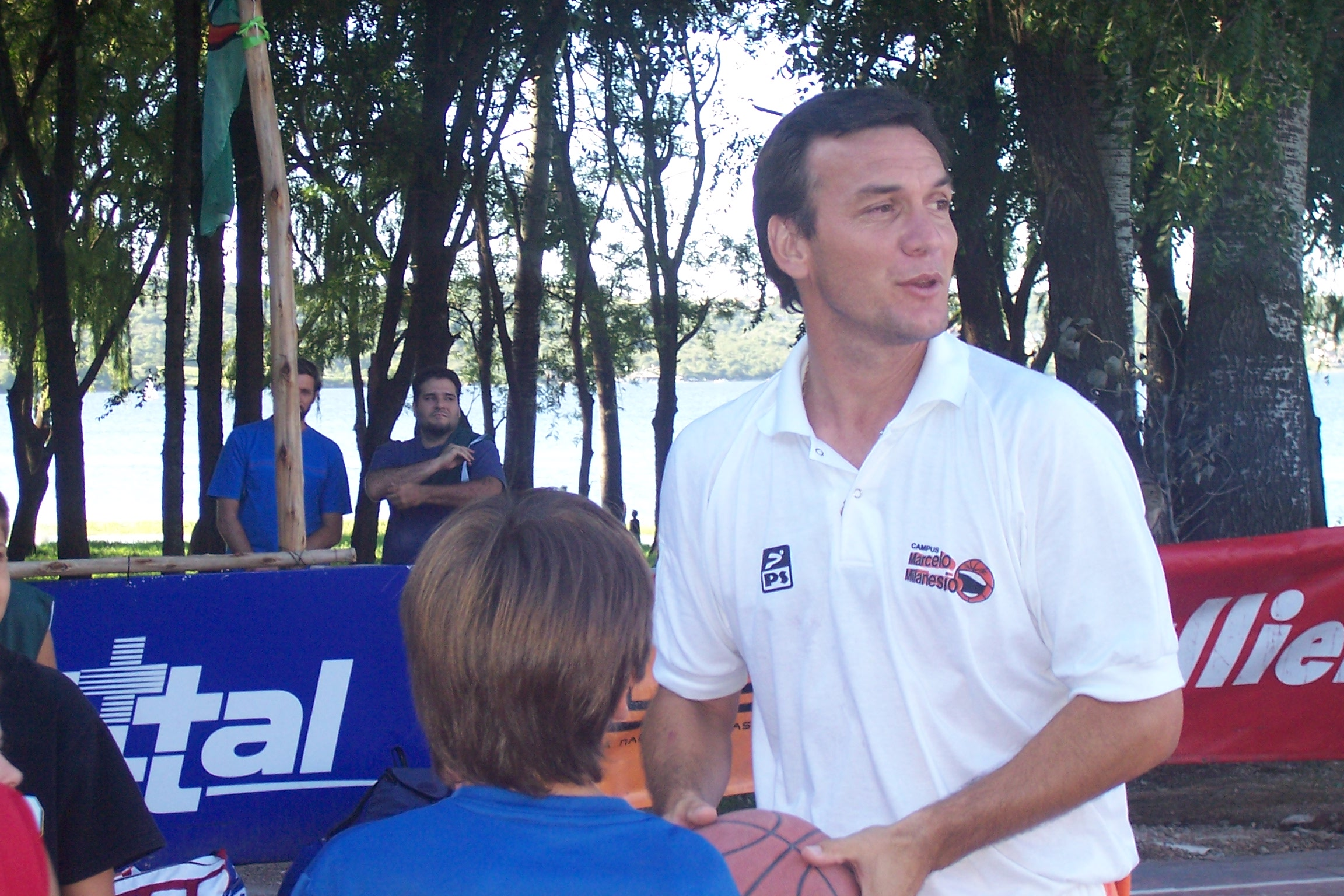 Argentine basketball player, Marcelo Milanesio, at the Villa Carlos Paz Campus, Córdoba Province.